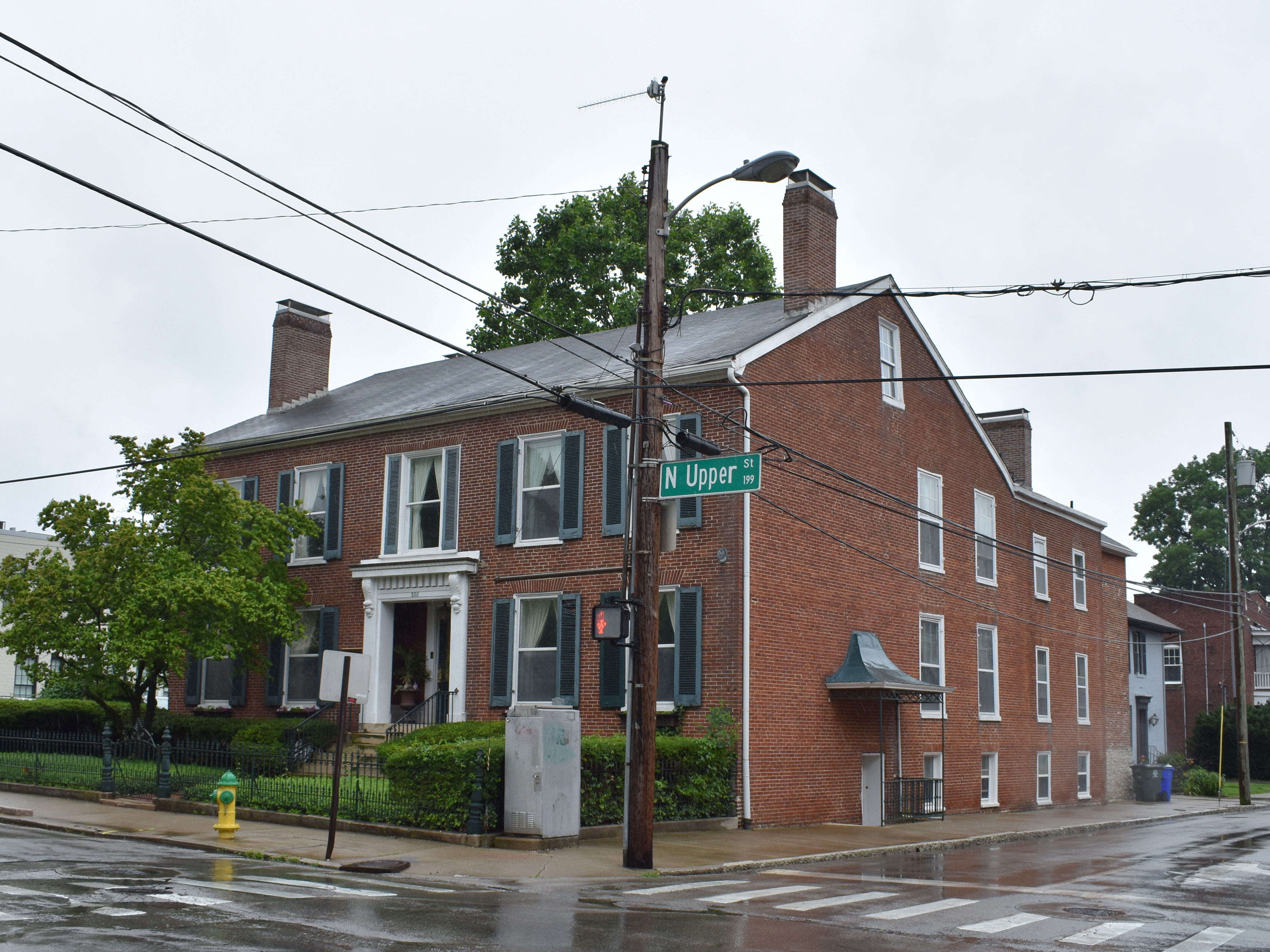 The Abraham Barton House (1795) in Lexington, Kentucky, is listed on the National Register of Historic Places.